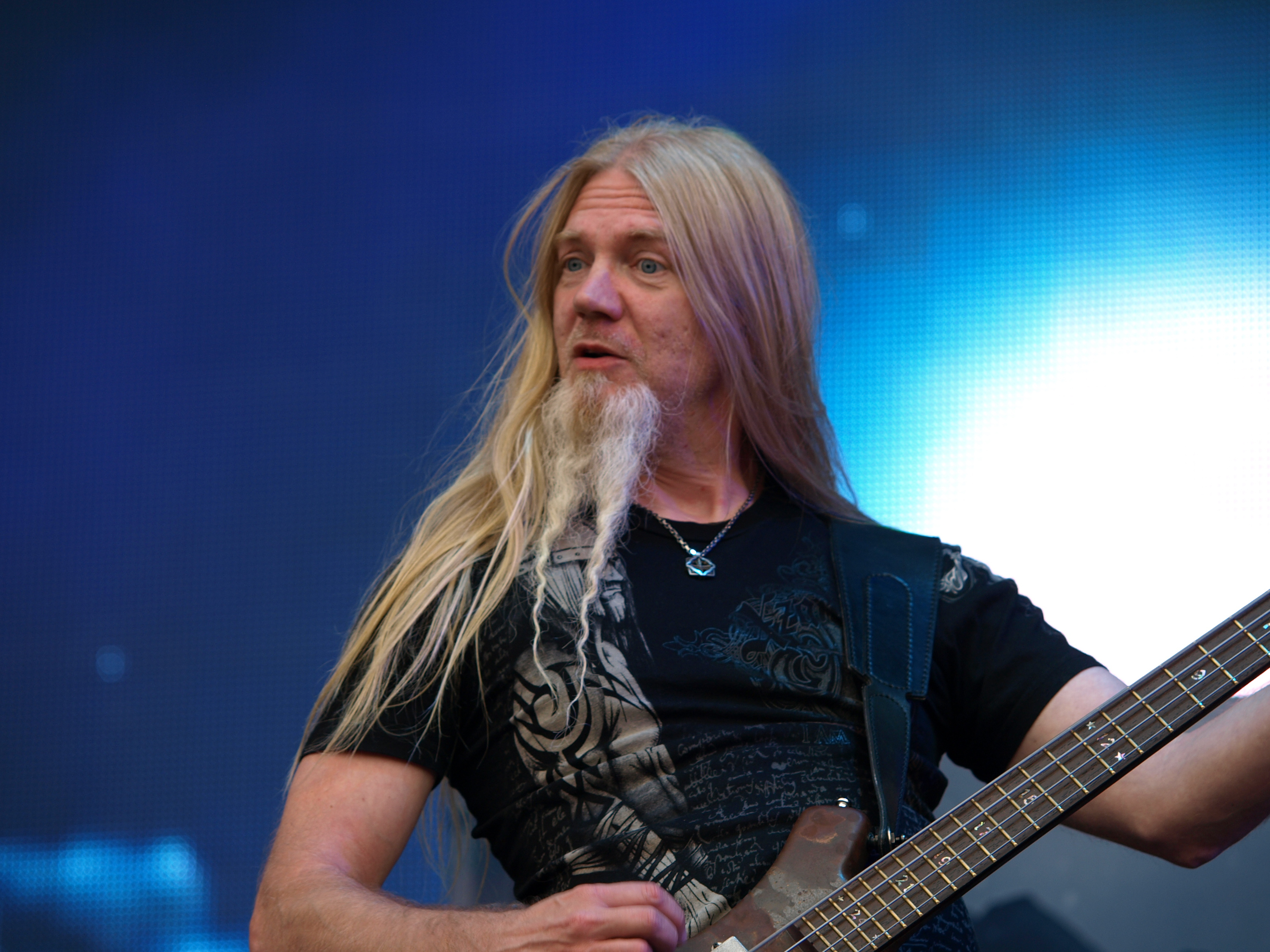 Finnish band Nightwish at Tuska Open Air 2013